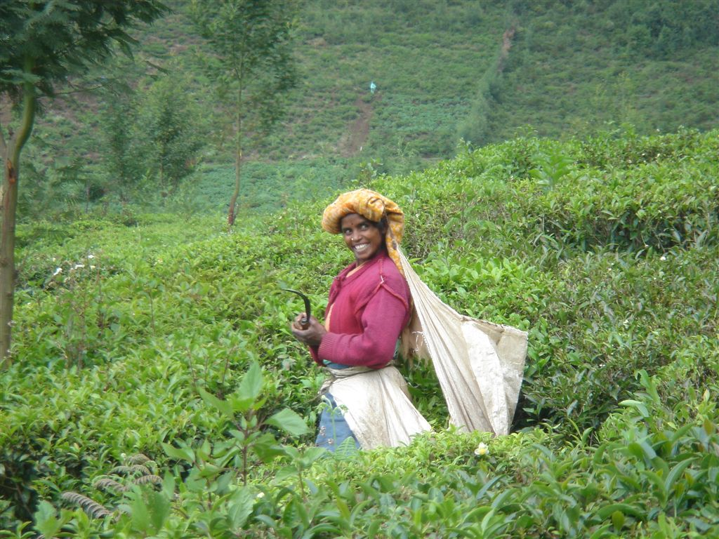 A teapicker at work in the Nilgiris, Tamil Nadu, India.